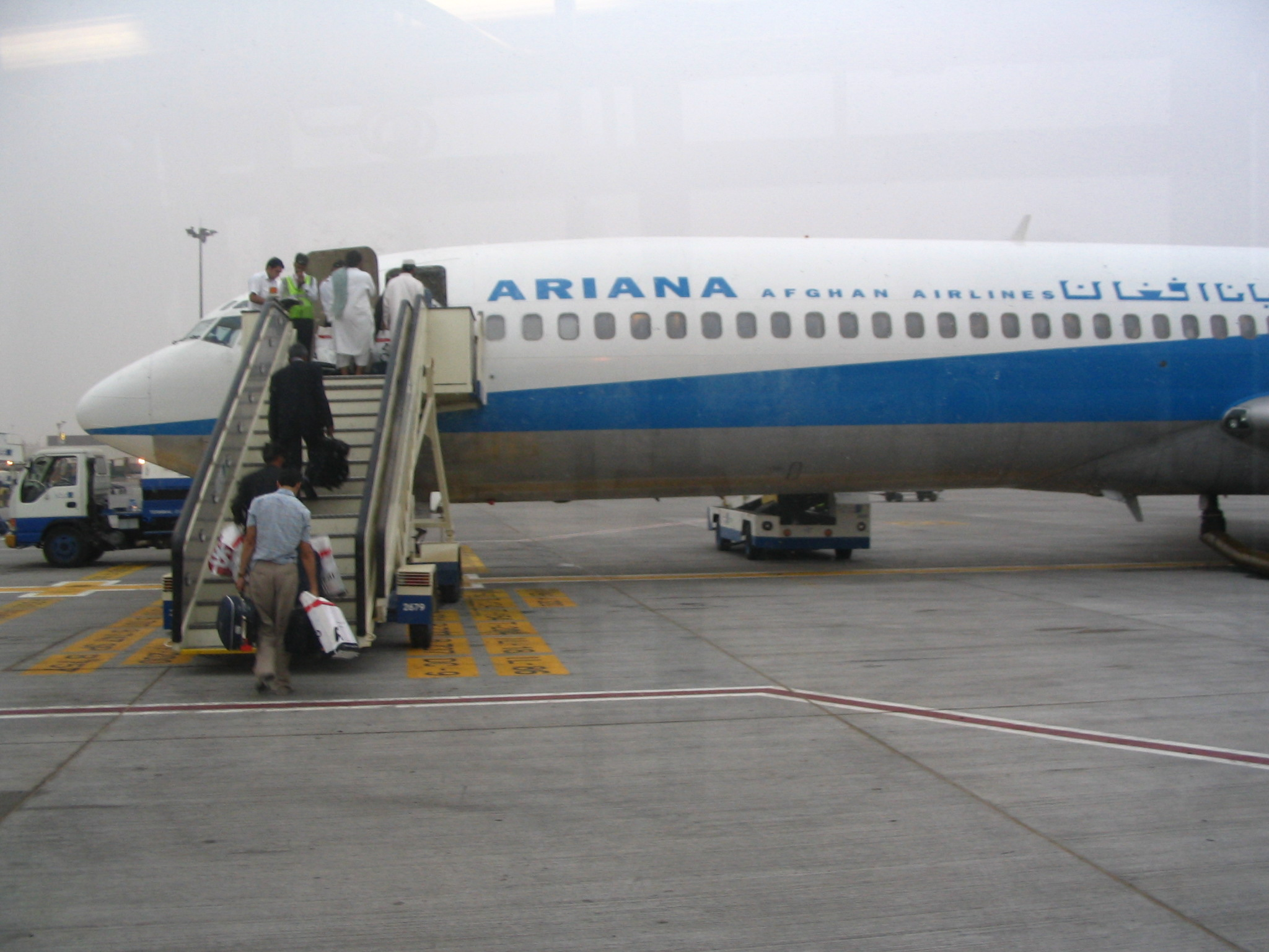 People boarding Ariana plane at Kabul International Airport